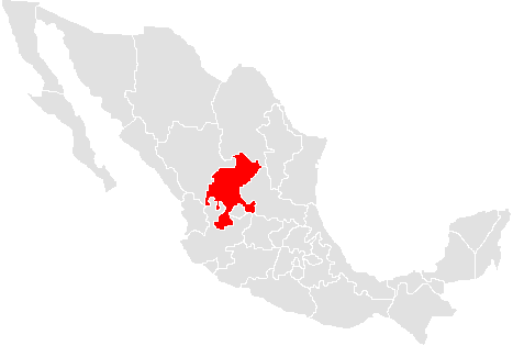 A map of the Mexican state of zacatecas made by me